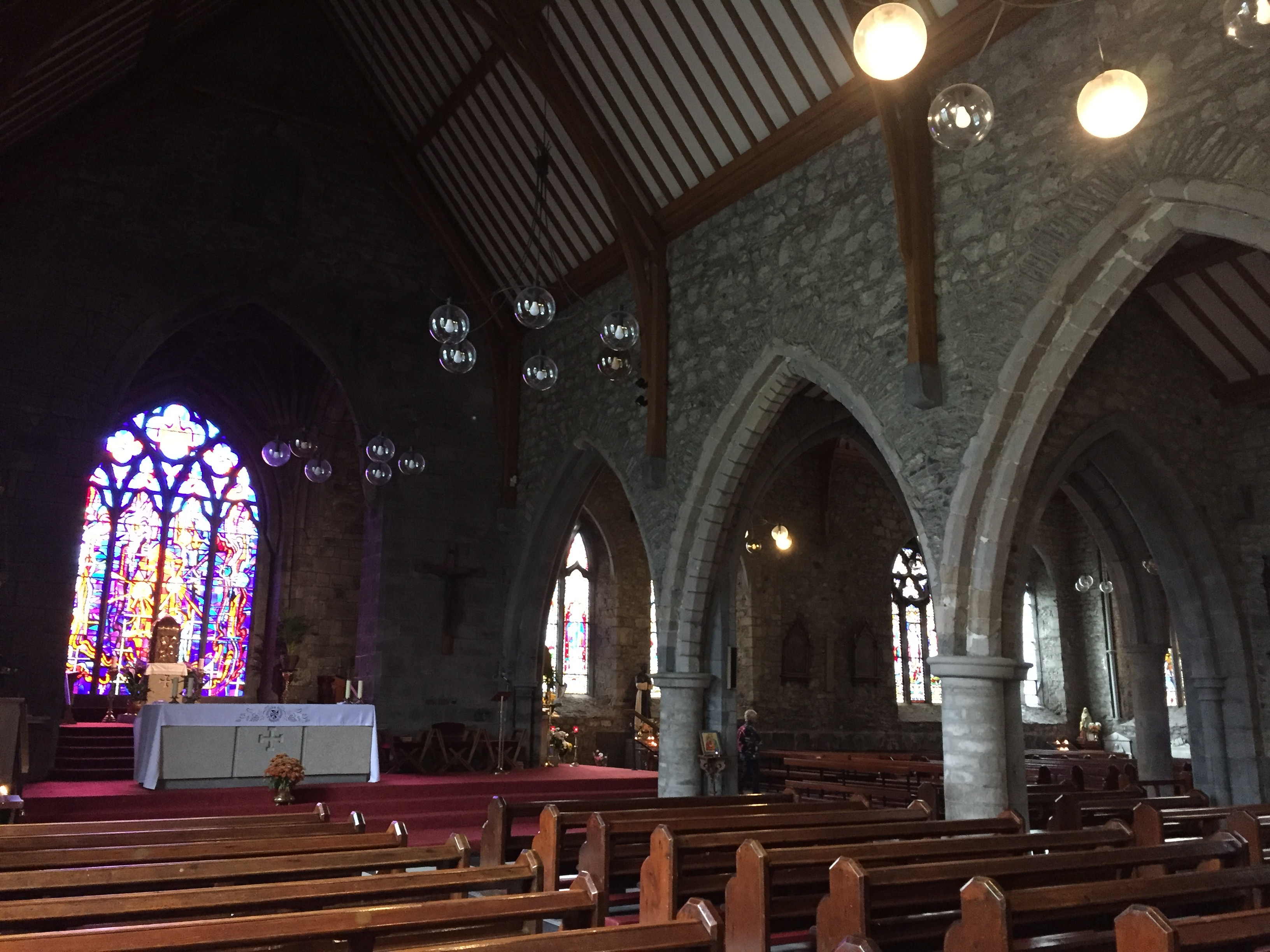 Interior of the Black Abbey in Kilkenny, Ireland in 2018